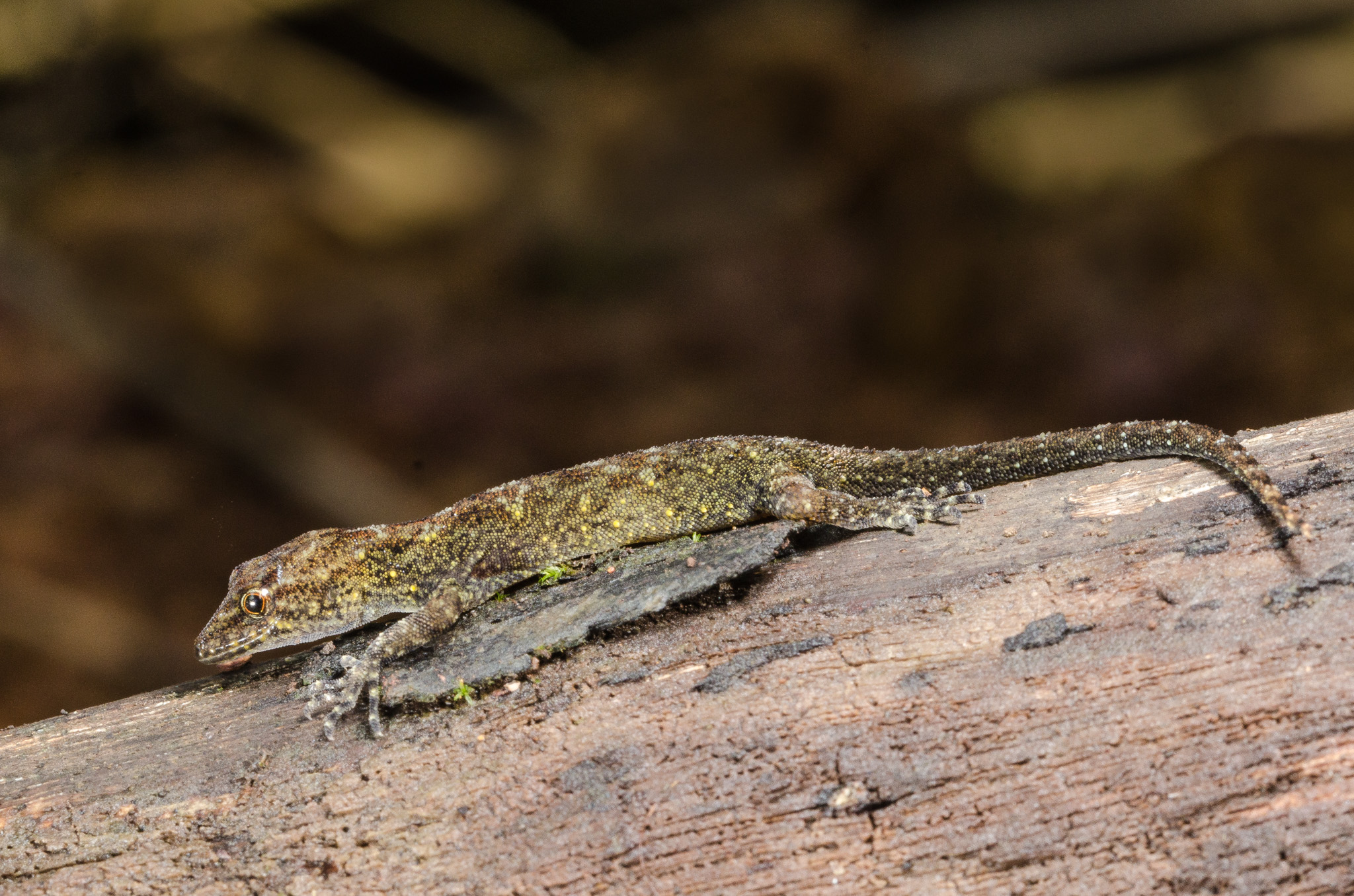 Shot at Kaas Plateau.